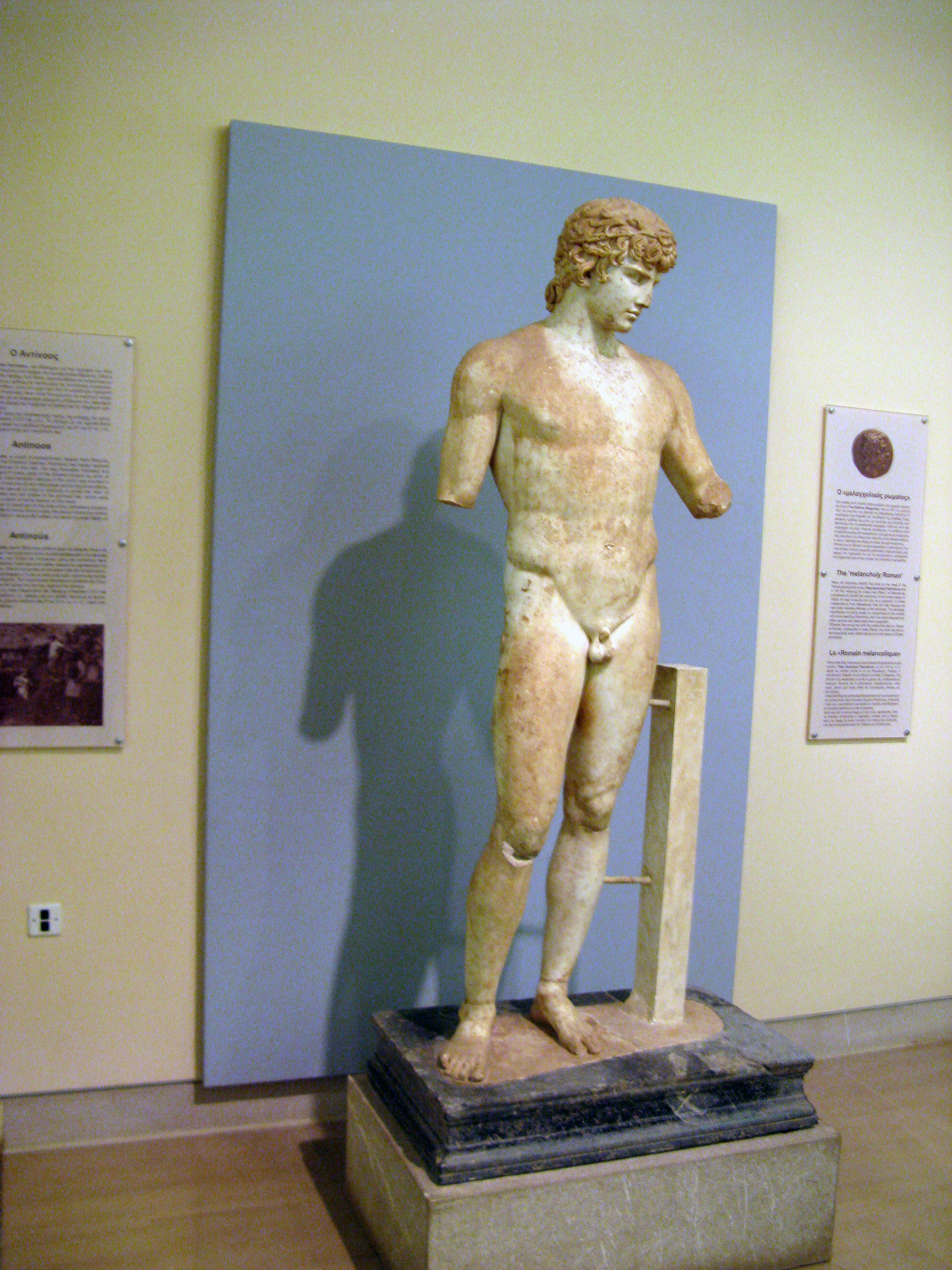 Delphi Antinous